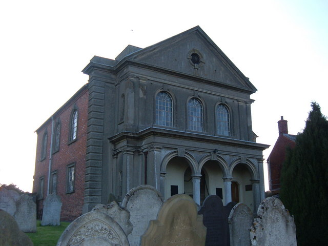 Clipston Chapel in Northamptonshire where Edward Augustus Cox was minister in 1805